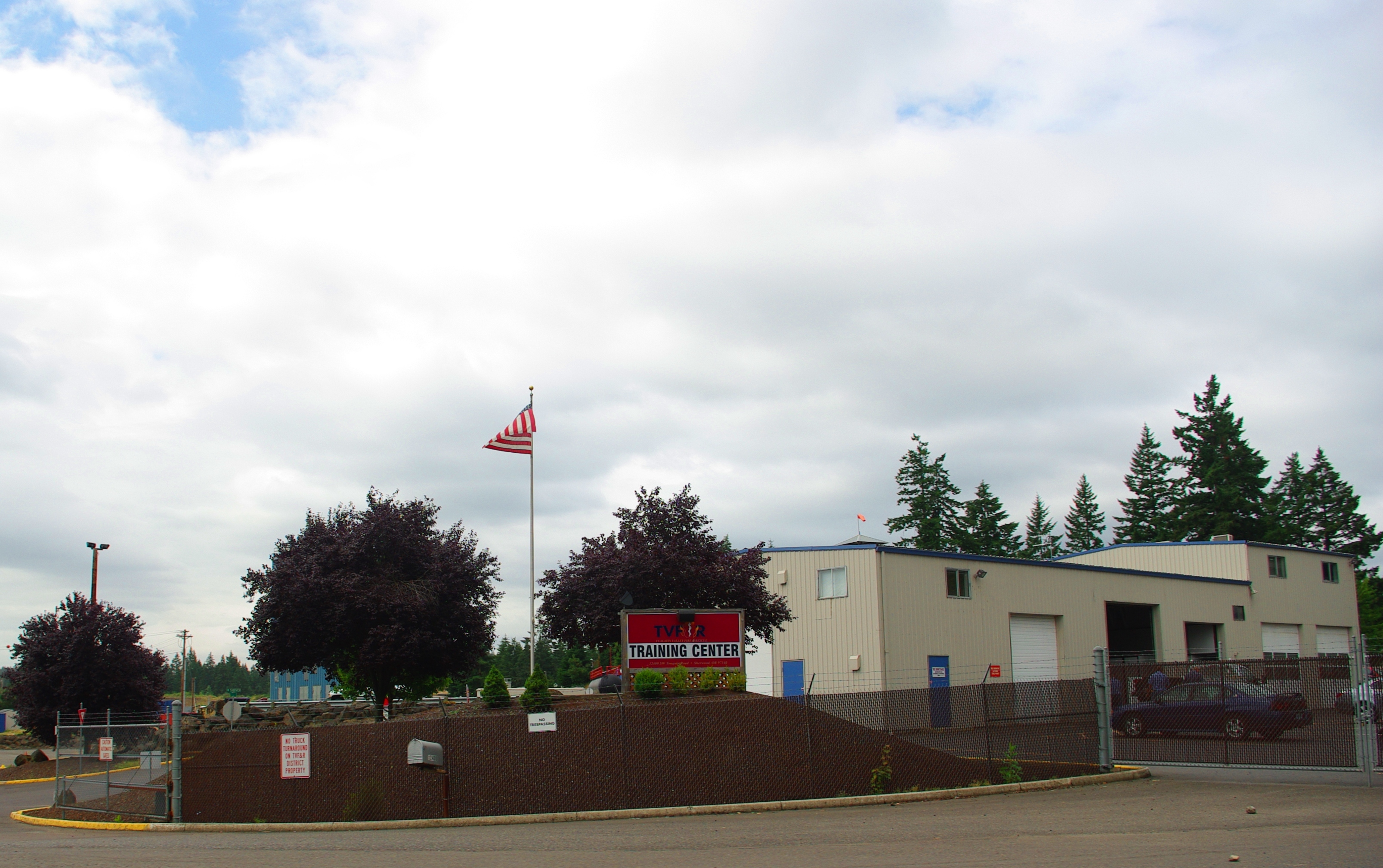 Tualatin Valley Fire & Rescue training center near Tualatin, Oregon, USA.